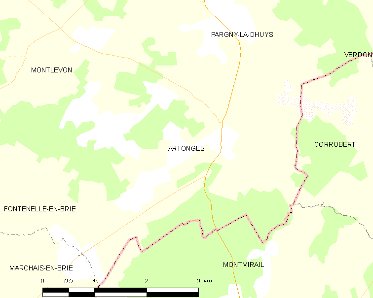 Map of French commune: Artonges Map commune FR insee code 02026.png